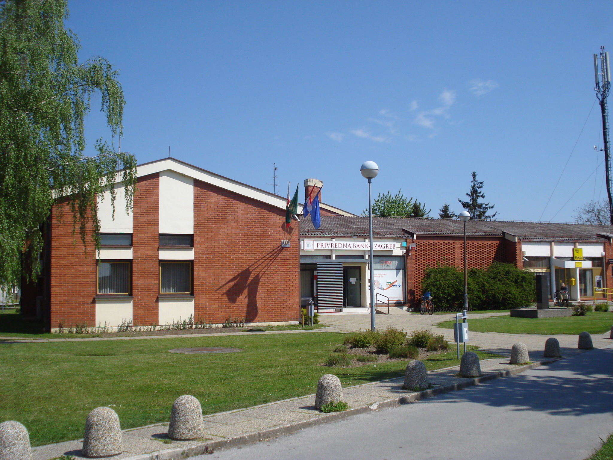 Nedelišće, Medjimurje County, Croatia - Municipal building